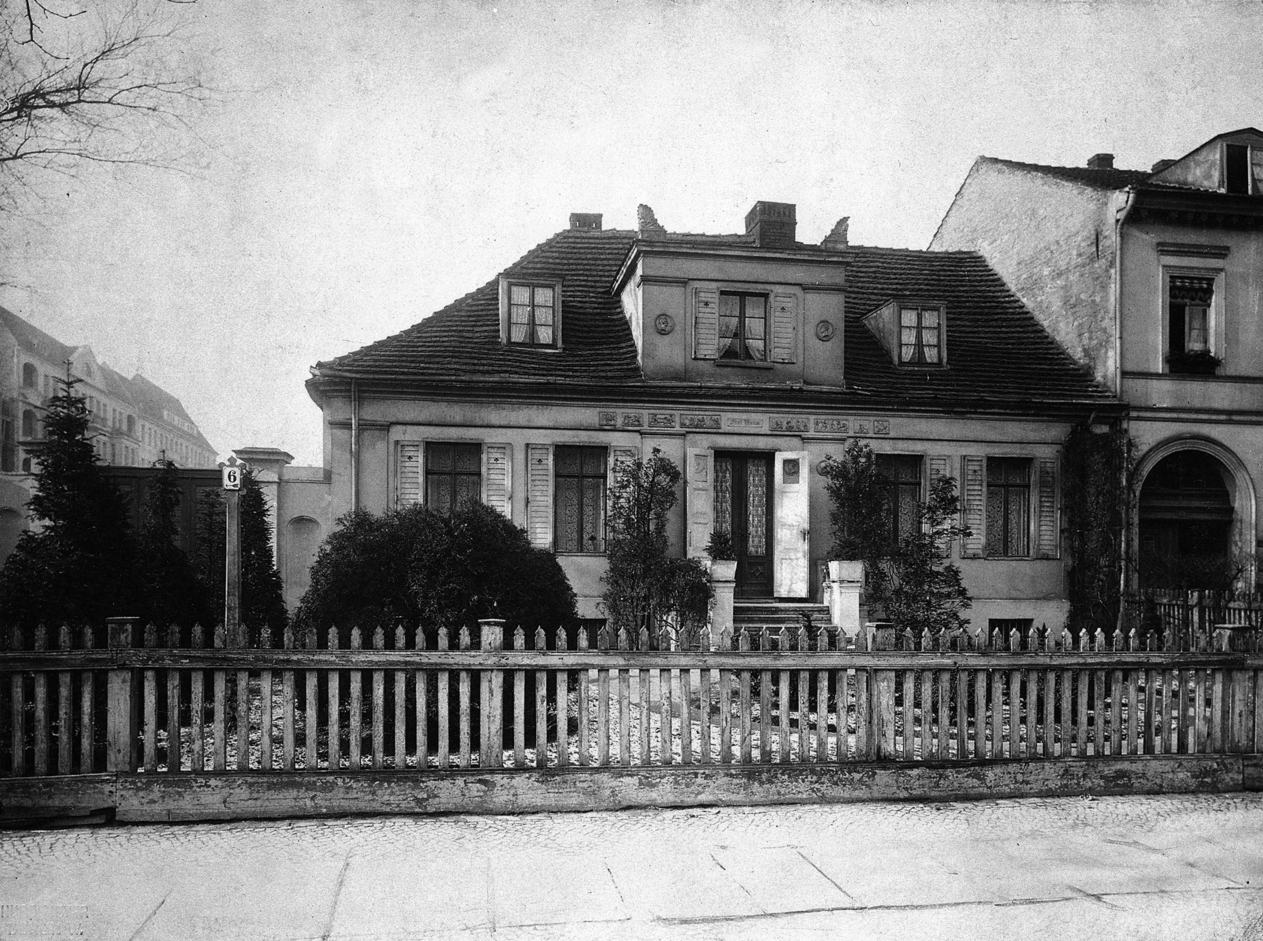 Former villa of the sculptor Christian Daniel Rauch (1777–1857) in no. 6, Schloßstraße, Charlottenburg (now part of Berlin).